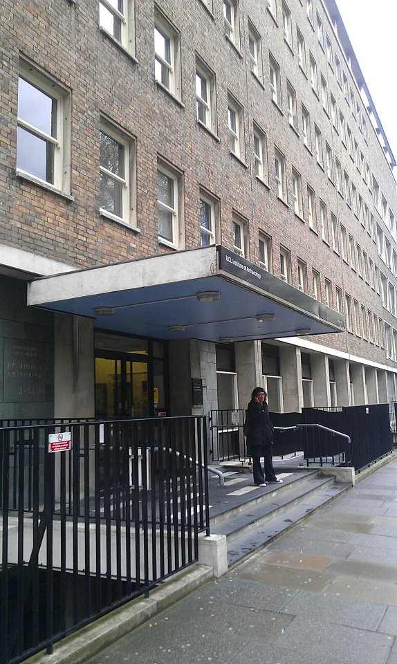 The outside of the UCL Institute of Archaeology, taken in 2012.